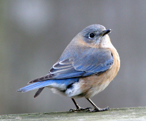 Eastern Bluebird, female, Sialia sialis. Location: Durham County, North Carolina, United States.